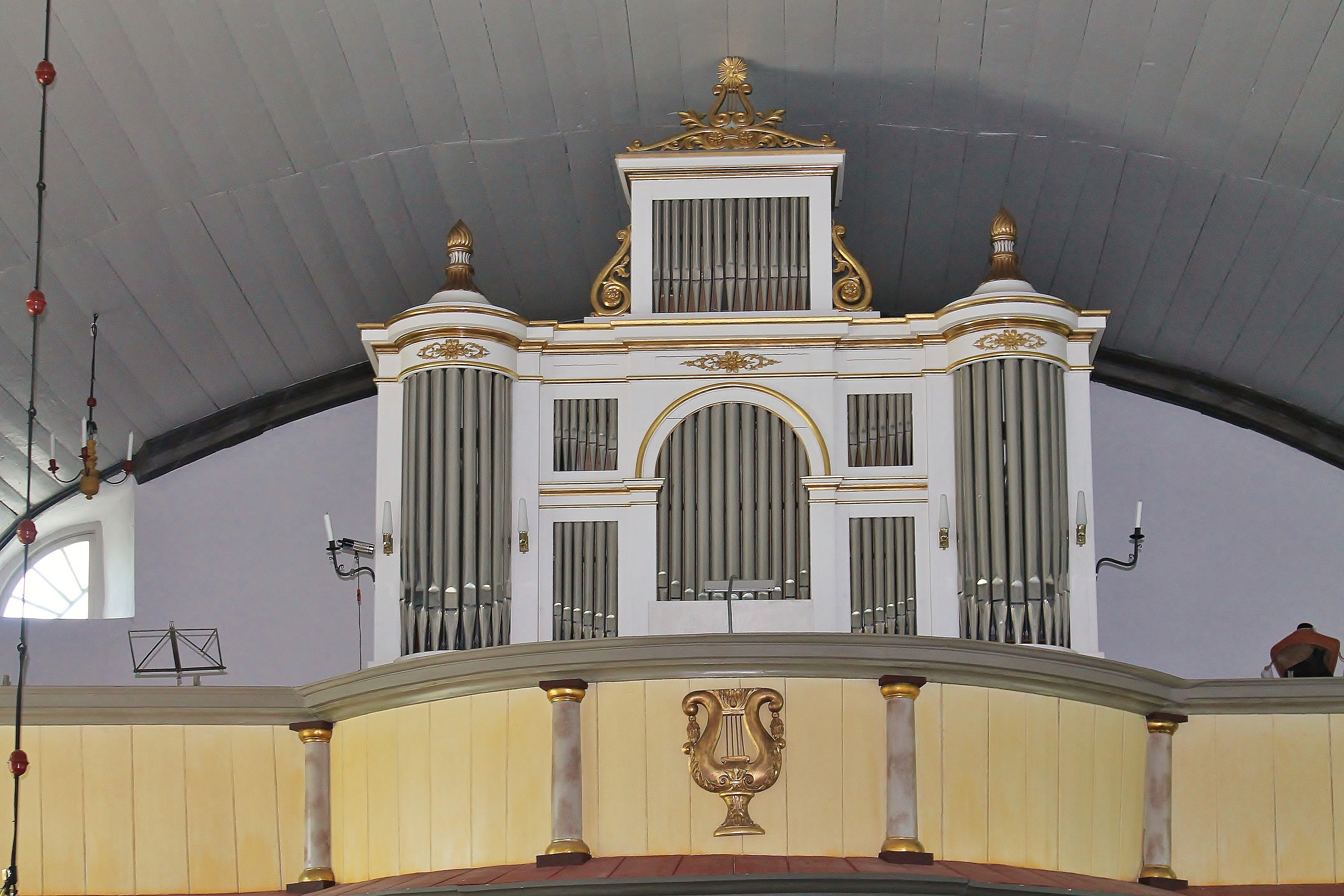 Bredsättra Church. Organ from 1875, built by Carl August Johansson, Hovmantorp.